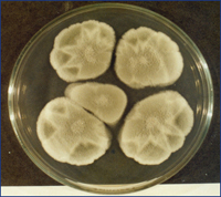 P. purpurogenum culture.